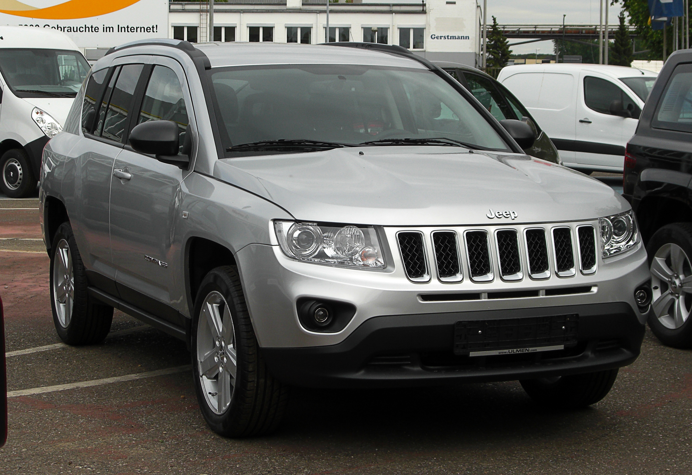 Jeep Compass 2.2 CRD Limited (Facelift)